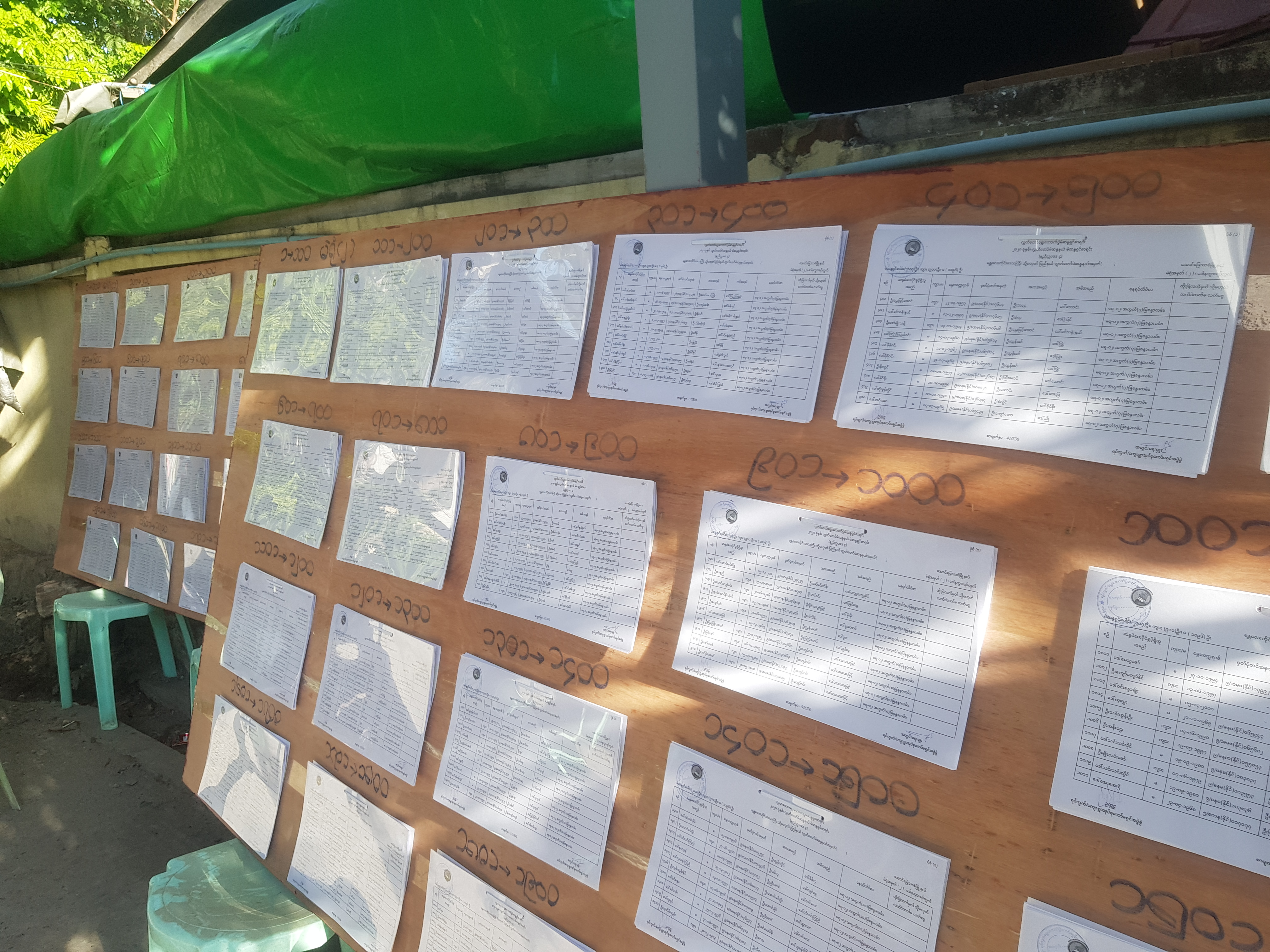 The voter list of 2020 Myanmar General Election in Mandalay.